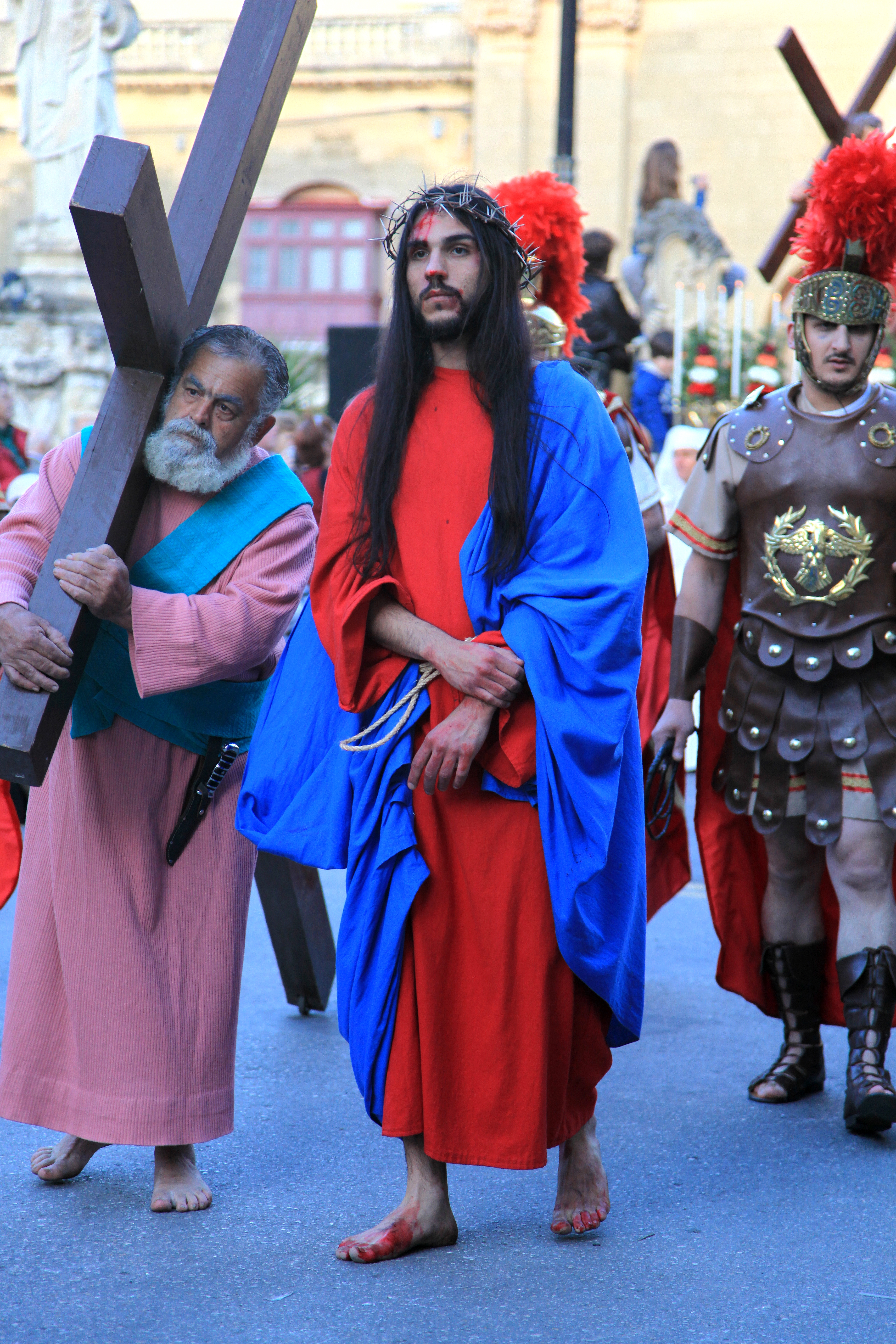 2014 Good Friday procession, Misraħ San Filep in Żebbuġ, Malta